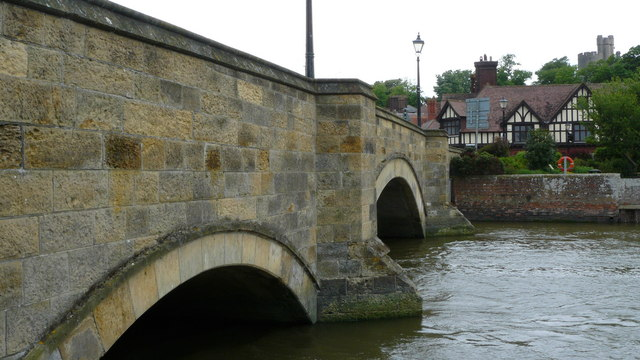 Queen Street bridge at Arundel, West Sussex. This bridge, across the River Arun, marks the limit of navigation. Downstream was the "port" of Arundel, which was accessed from the sea, and, in former times, by canal. Upstream, the River Arun was formerly linked to the River Wey by the Wey and Arun canal.